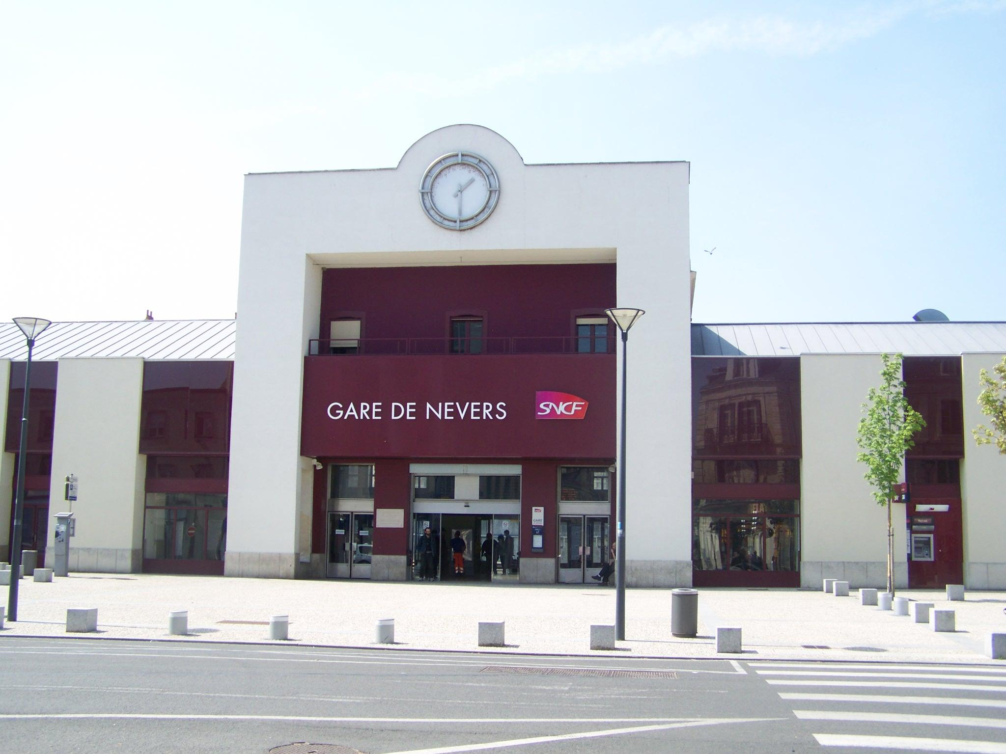 Main building and entrance of city of Nevers railway station, in Nièvre, France.